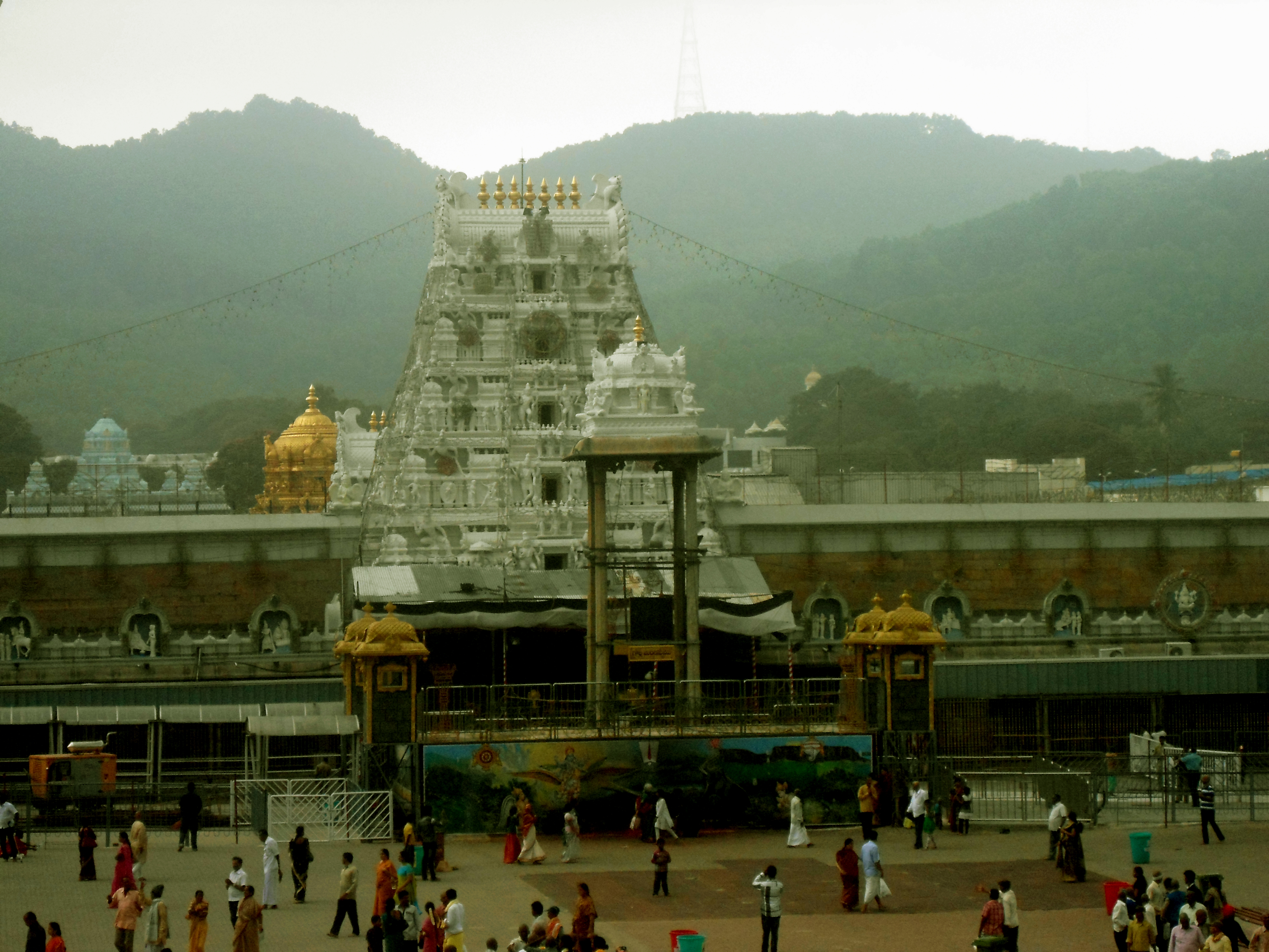 A View of Tirumala Venkateswara Temple, Andhra Pradesh